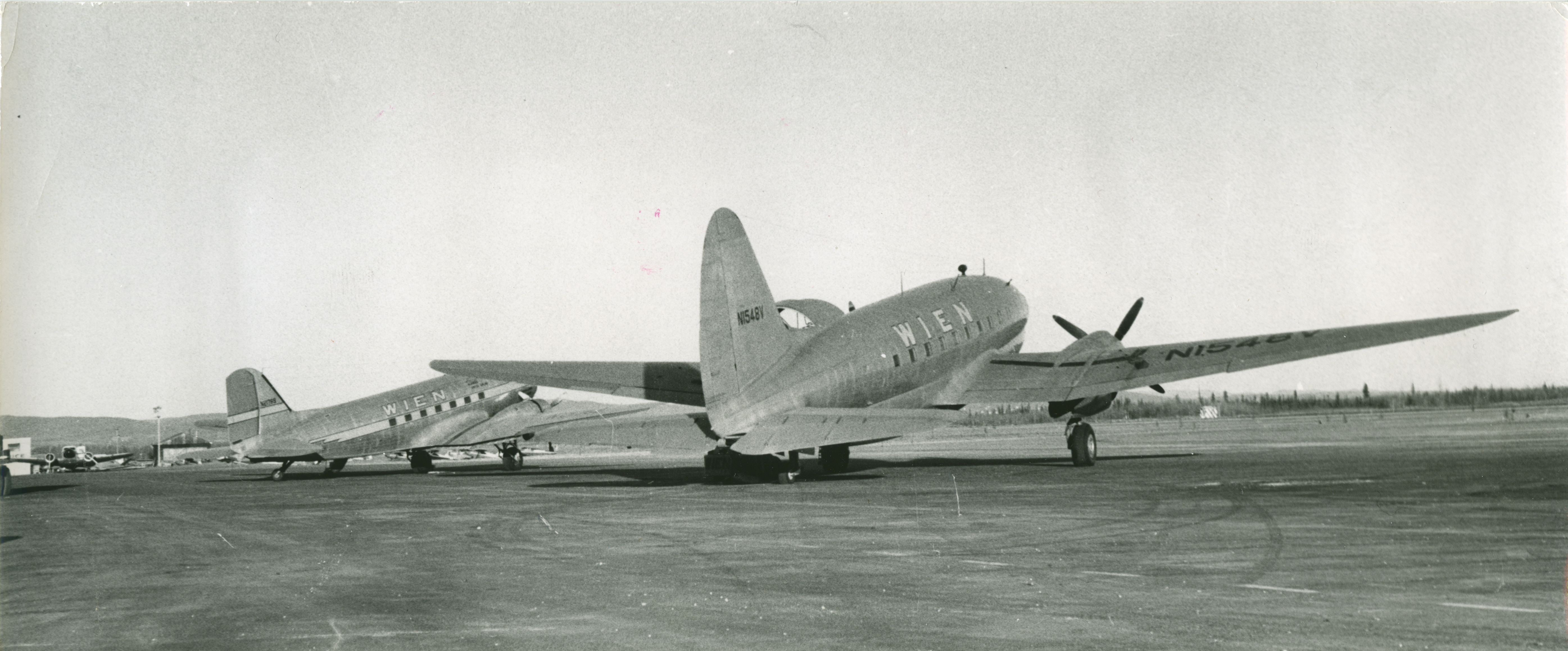 Meyer, Elisabeth Two planes at the airport. Alaska, probably 1955. The planes are a C-46 N1548V and a DC-3 N21769. Gelatin silver print, baryta NMFF.002537-15